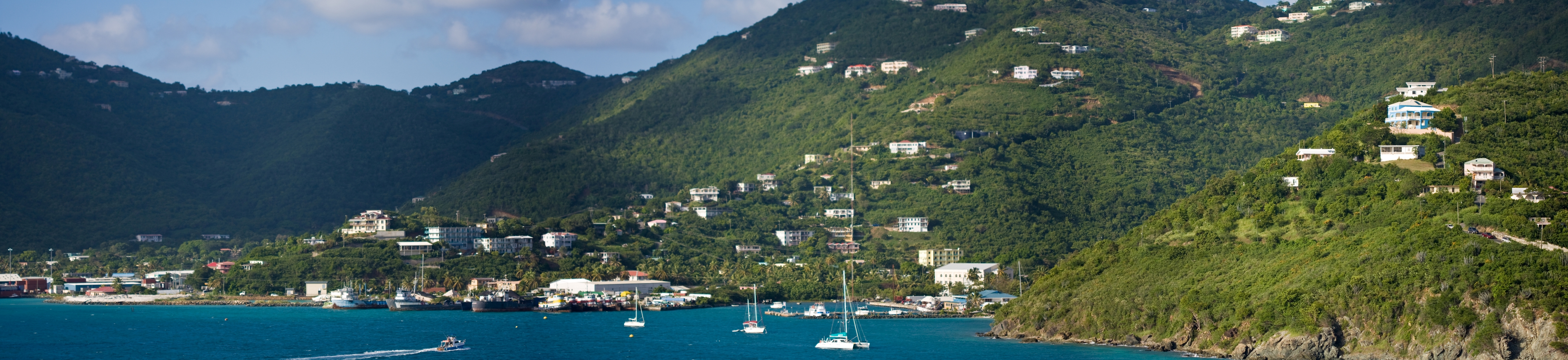 Panoramic view of Tortola's Road Town's Harbor